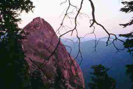 United States National Park Service photo of Moro Rock, Sequoia National Park, California.